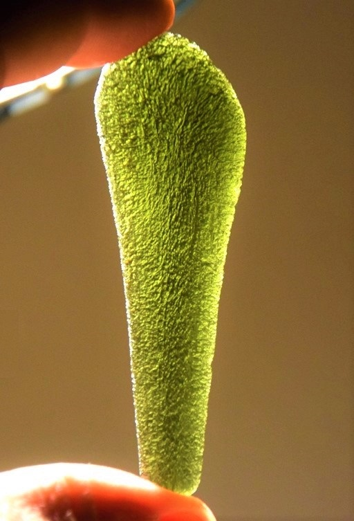 Photo taken by Moldavite Association team 2017